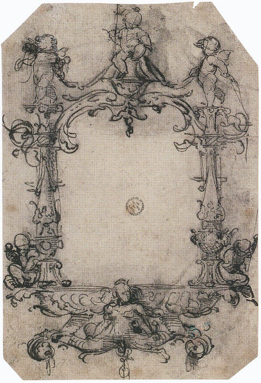 Design for a Frame. Pen and black ink over chalk on paper, 15.4 × 10.4 cm, Kunstmuseum Basel. The fluid style of this drawing shows that it comes from an early stage in Holbein's design process. The crosses on the faces of the cherubs indicate direction and foreshortening. The frame may have been for a miniature picture or a mirror, to be worn on a chain. The pearl drawn at the bottom reveals the small scale of the item, which would have been made by a highly skilled goldsmith (Foister, p. 84).